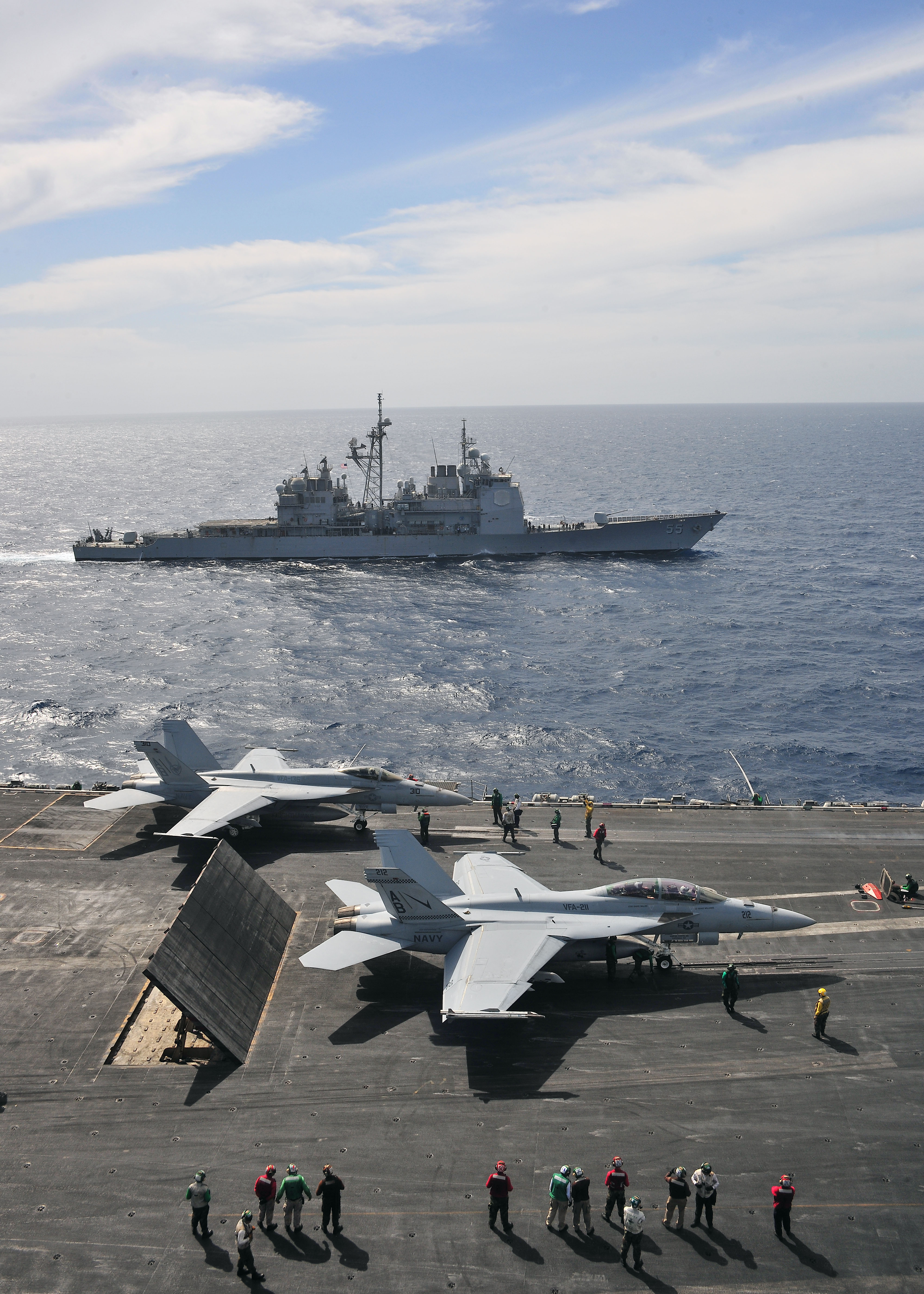 RED SEA (March 3, 2011) The Ticonderoga-class guided-missile cruiser USS Leyte Gulf (CG 55) pulls alongside the aircraft carrier USS Enterprise (CVN 65) while conducting flight operations in the Red Sea. Enterprise and Carrier Air Wing (CVW) 1 are in the U.S. 5th Fleet area of responsibility on a routine deployment to conduct maritime security operations. (U.S. Navy photo by Mass Communication Specialist Seaman Jesse L. Gonzalez/Released)